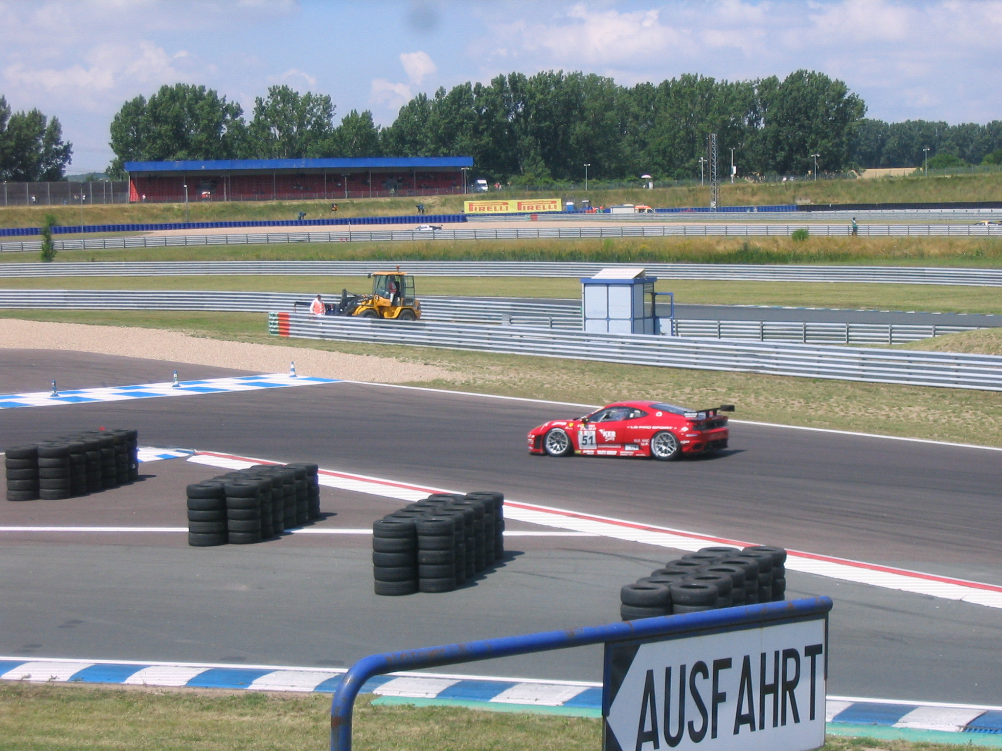 AF Corse Ferrari F430 GTC driven by Thomas Biagi and Christian Montanari at the pre-qualifing saison in Oschersleben 2008